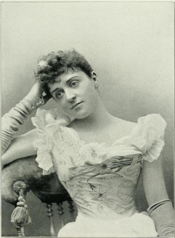 Photograph c 1891 of Marie Burroughs in the role of "Kate Norbury" in the play John Needham's double.